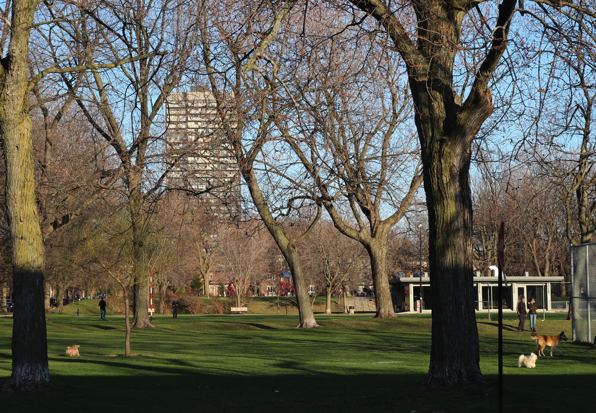 Montreal Parc MacDonald